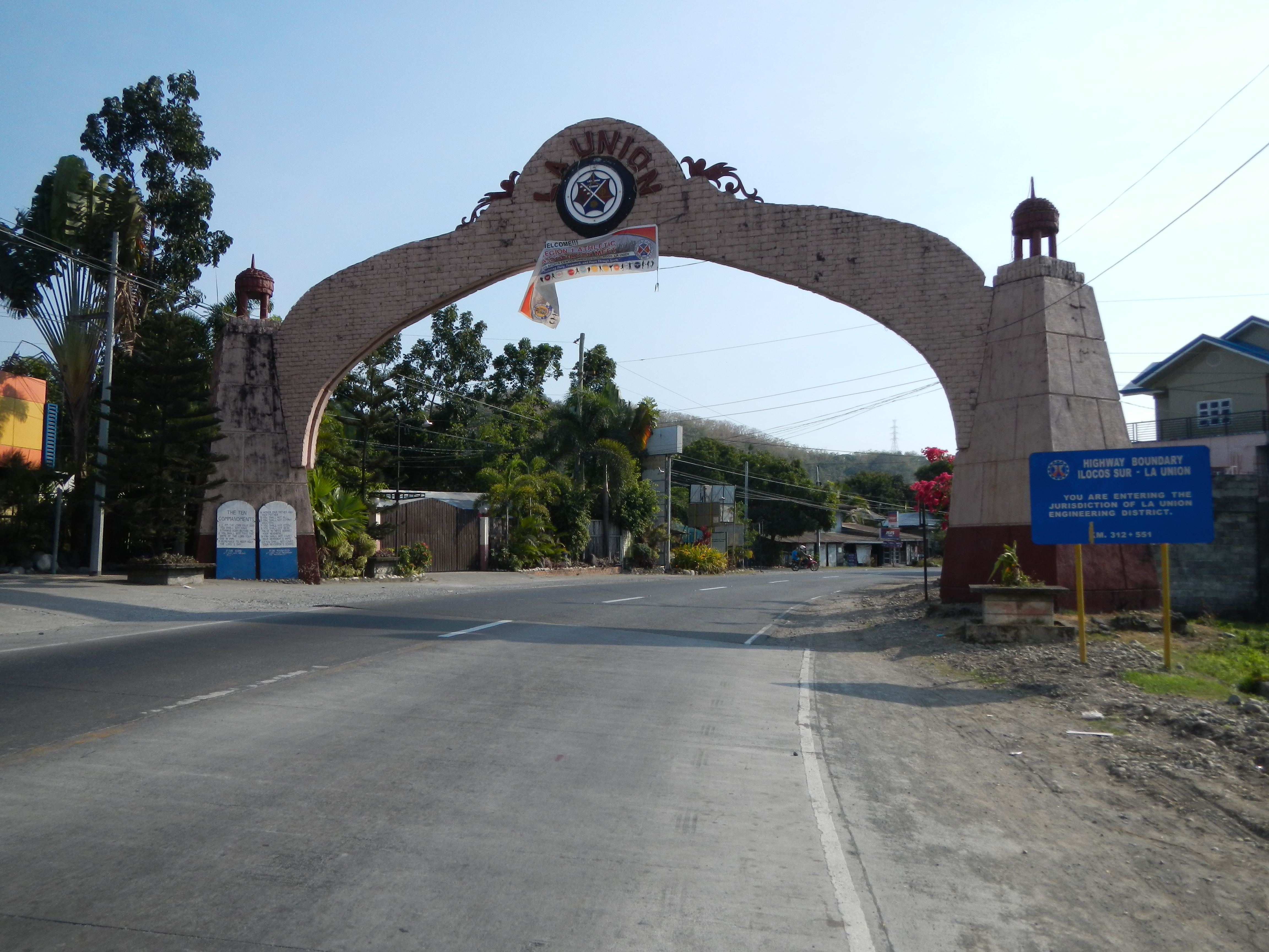 Barangay Ipet, Sudipen High School in front of the Holy Family Church of Sudipen, La Union to the August 19, 1991 La Union Welcome Arch, marker and Sign and Barangay Ipet Welcome Arch, of Sudipen, La Union [1], Highway Boundary Ilocos Sur and La Union, KM 312+551, separating it from neighbor Tagudin, Ilocos Sur and Inang's Roasted Chicken in Villa d'El-Lita Hotel, Resort.